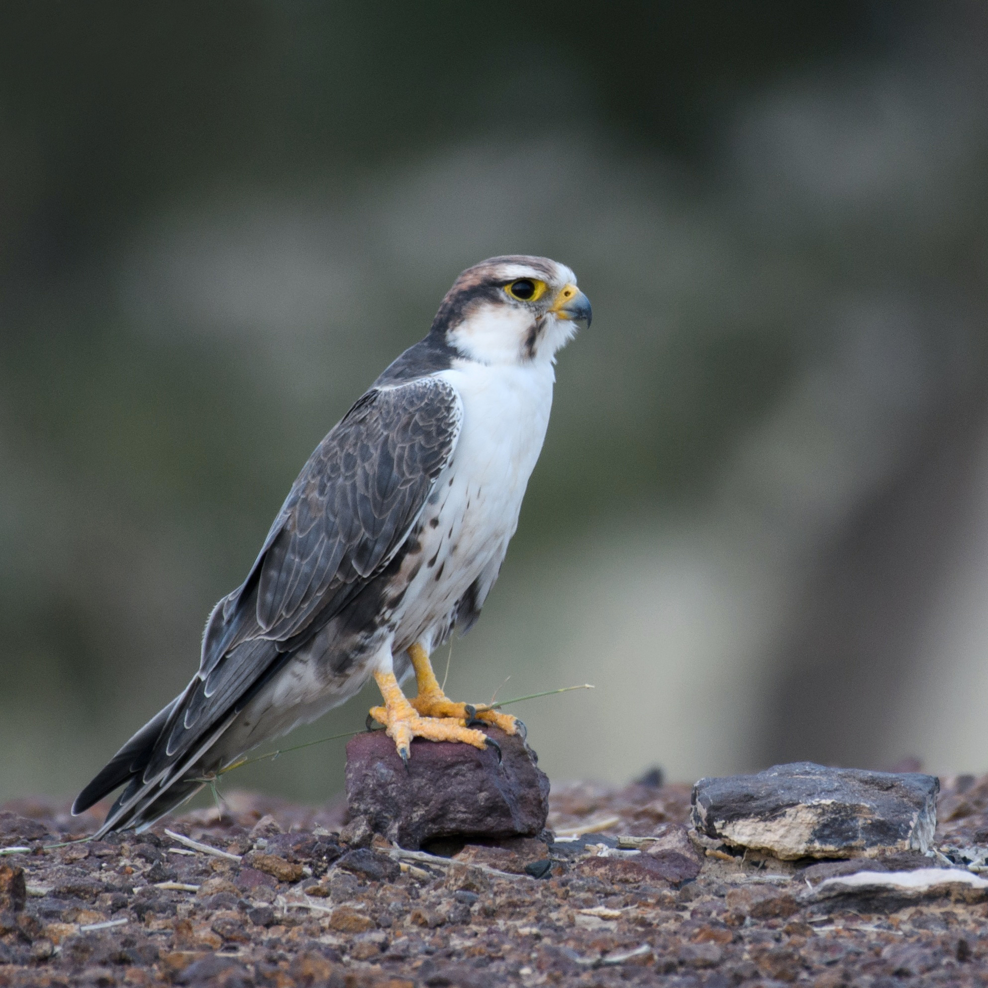 Classic plumage of adult Laggar Falcon, very plain whitish underparts, thin dark contrasting moustachial stripe, slight reddish head and bluish/grey Upperparts. Bare parts darker yellow.